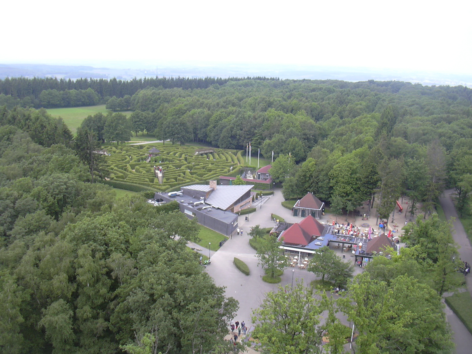 "Labyrinth" and playground, "Drielandenpunt" frontier Germany / The Netherlands / Belgium